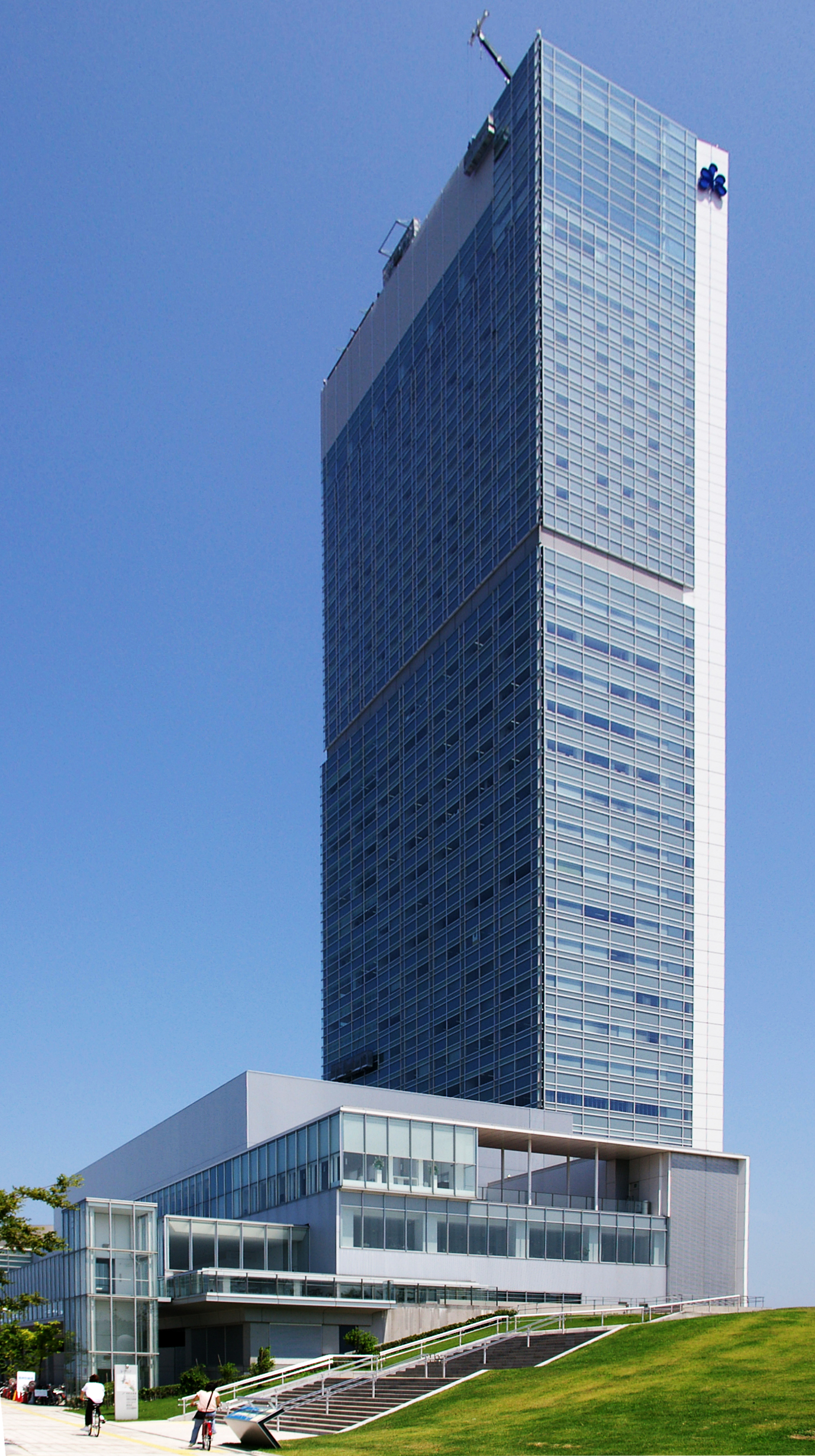 Photograph of Bandaijima Building, a part of Toki Messe, in Chuo-ku, Niigata, Niigata Prefecture, Japan.